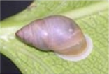 Photo of Partula clara incrassa from Tiapa valley on Tahiti.